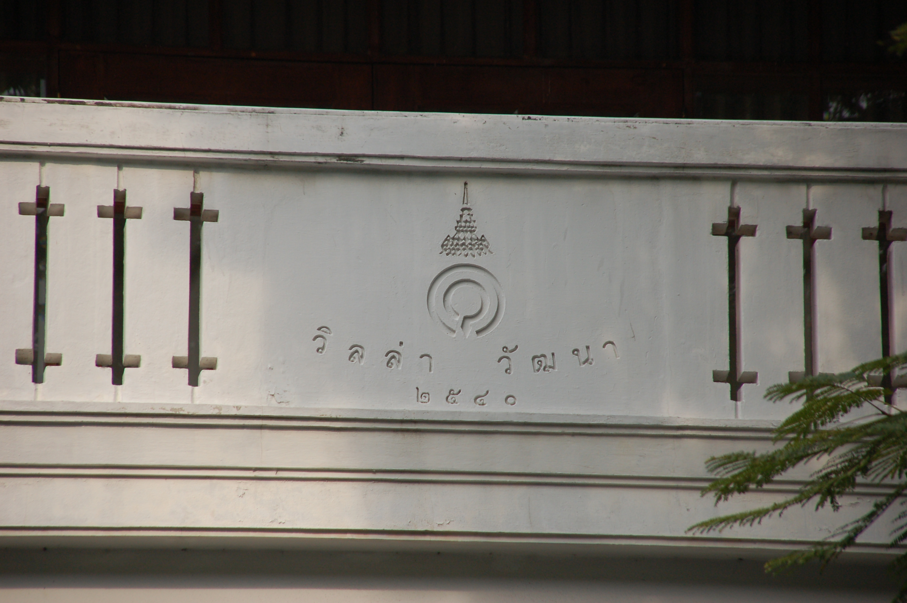 Front gate of Villa Vadhana, Le Dix palace. The building is at 15 Soi Ngam Du Phlee, Sikhumvit rd., Bangkok, Thailand. Constructed in 1997.